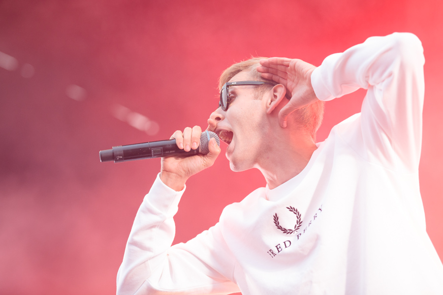 Lars Vaular at Stavernfestivalen. The concert took place on 14. July 2018 in Stavern. Lineup:Lars Vaular (rap)Unidentified (rap)Unidentified (disc jockey)